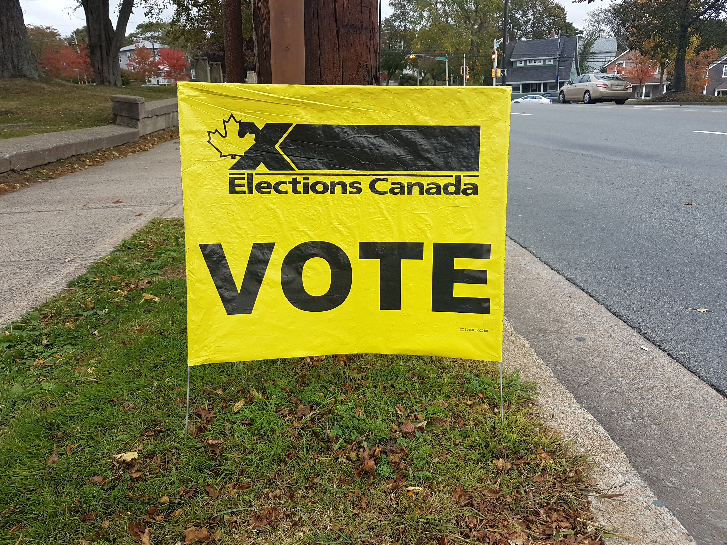 Elections Canada yellow sign at an advance polling station in Halifax, Nova Scotia, on October 11, 2019. The 43rd Canadian general election is scheduled to take place on October 21, 2019.